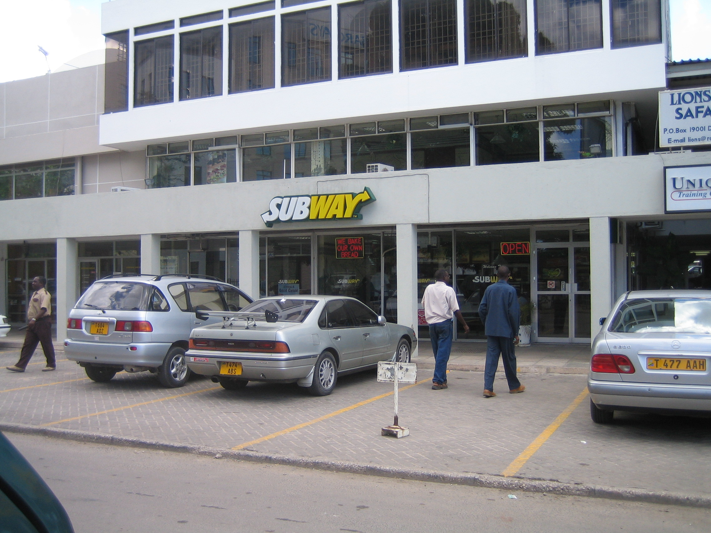 A Subway restaurant in Dar es Salaam, Tanzania.